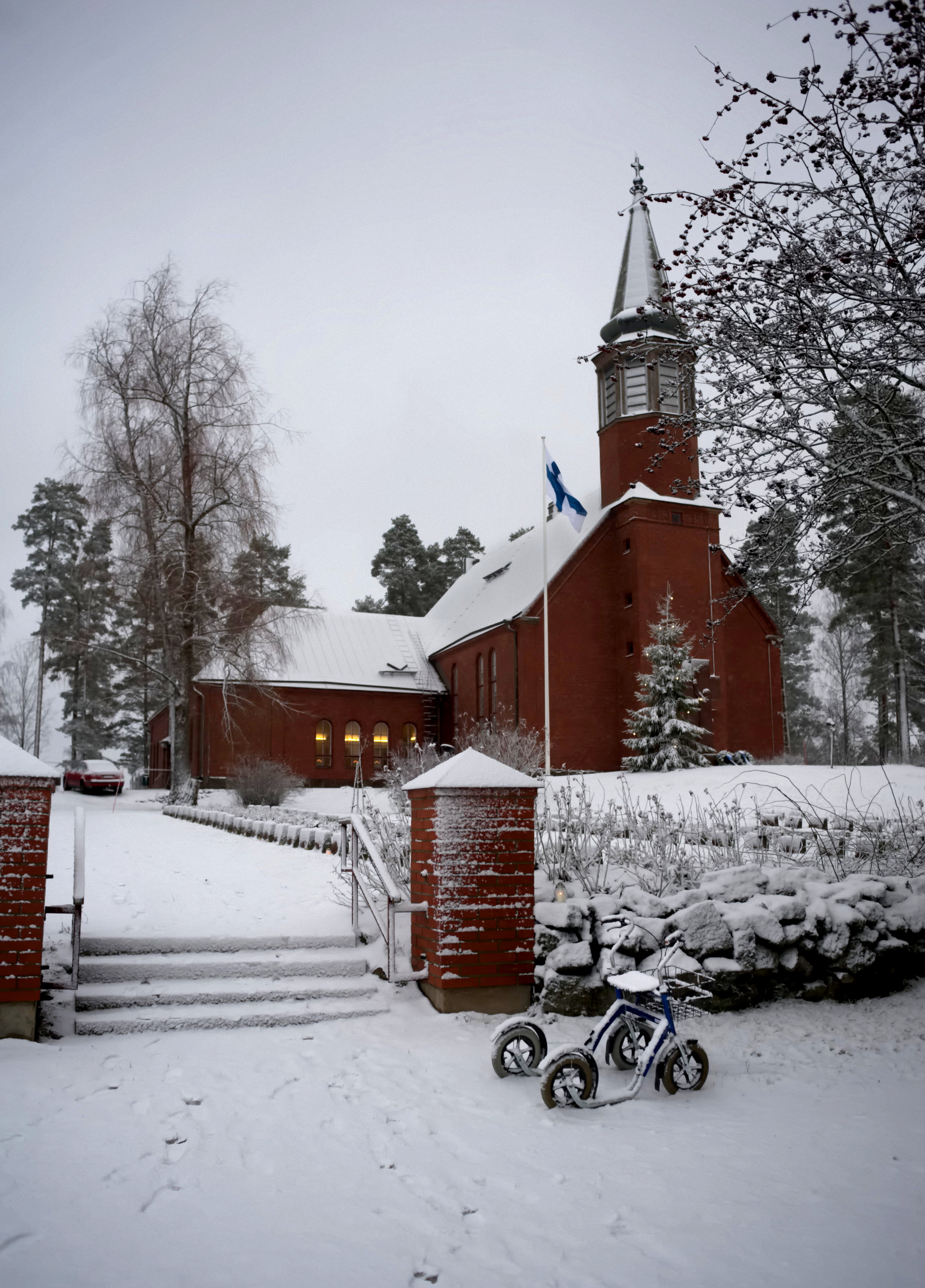 Ylämaa Church 2014